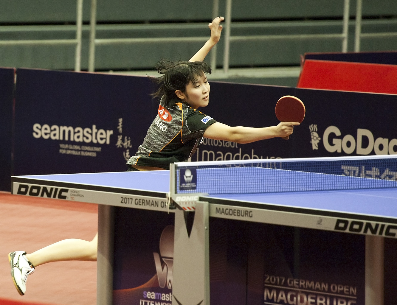 ITTF World Tour 2017 German Open, Magdeburg, Germany, 7 Nov 2017 - 12 Nov 2017, Miu Hirano